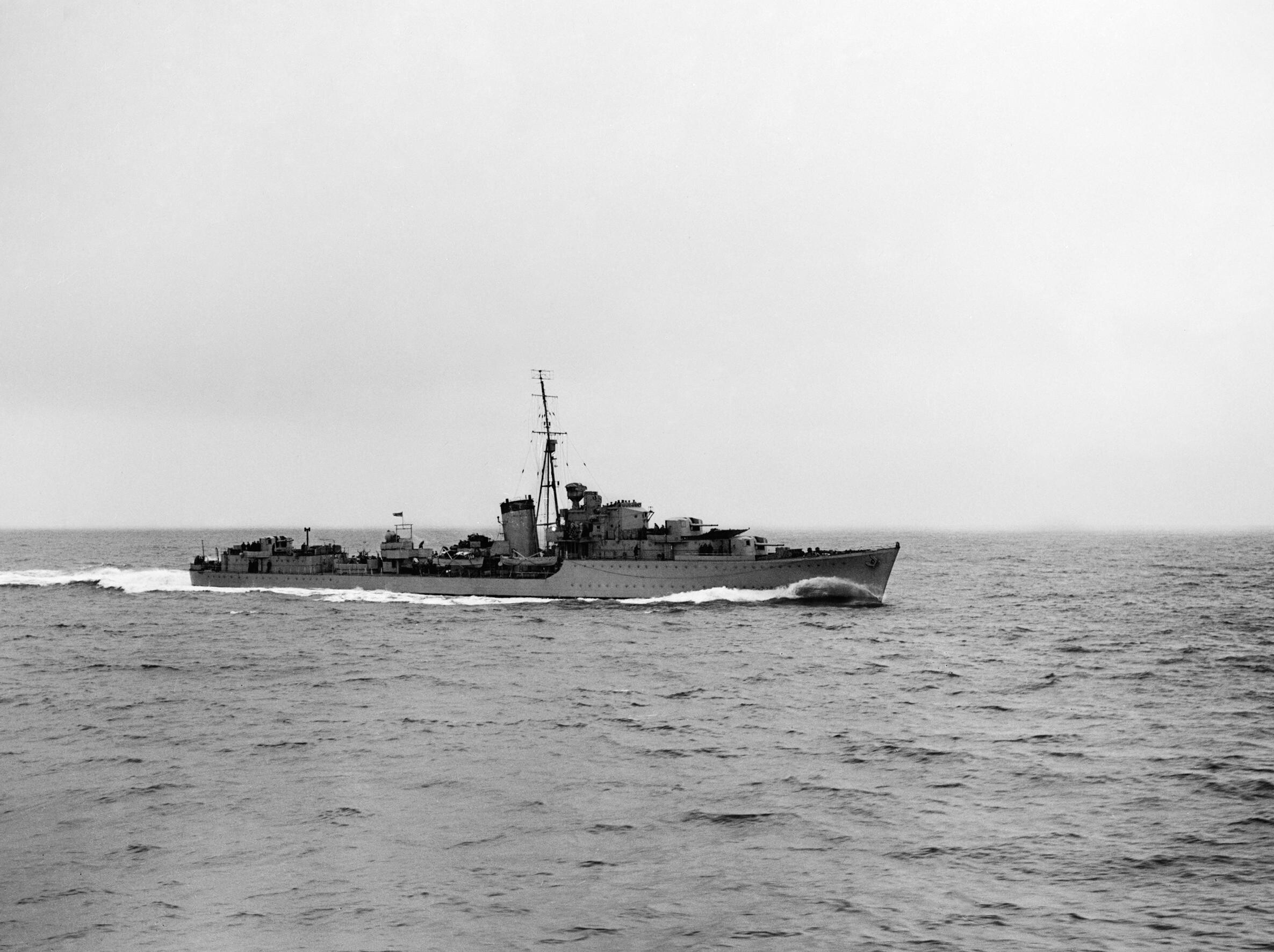 Admiral of the Fleet Earl Mountbatten of Burma Ships in which Mountbatten served: HMS KELLY a K class destroyer built in 1938 by Hawthorne Leslie. HMS KELLY was sunk by German aircraft off Crete on 23 May 1941.